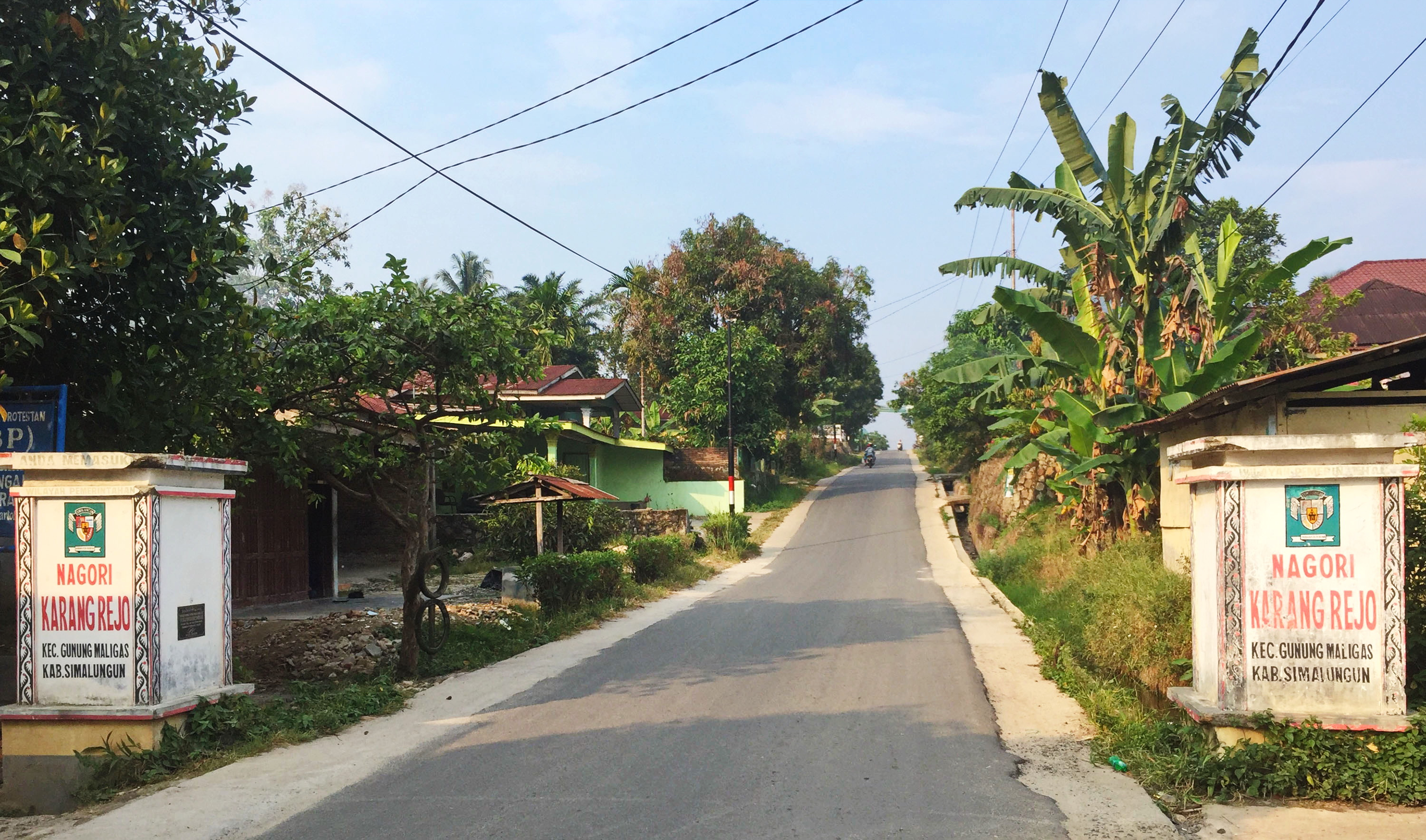 welcome gate to Karang Rejo, Gunung Maligas, Simalungun